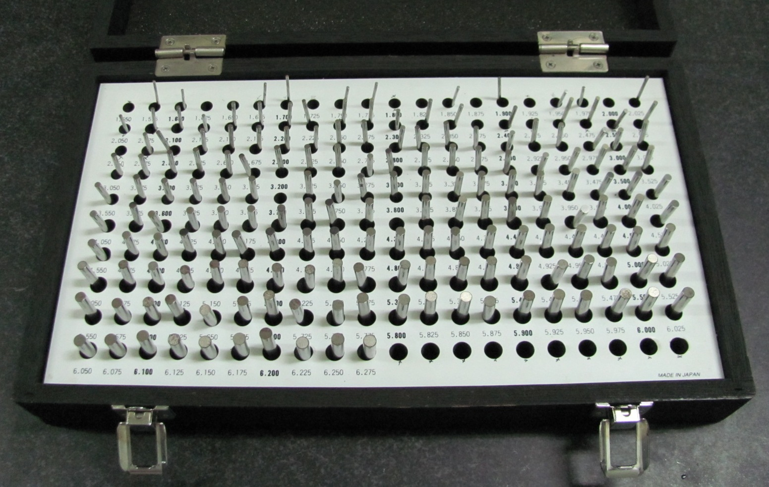 A set of pin type gauge blocks 1.550 - 6.275 mm